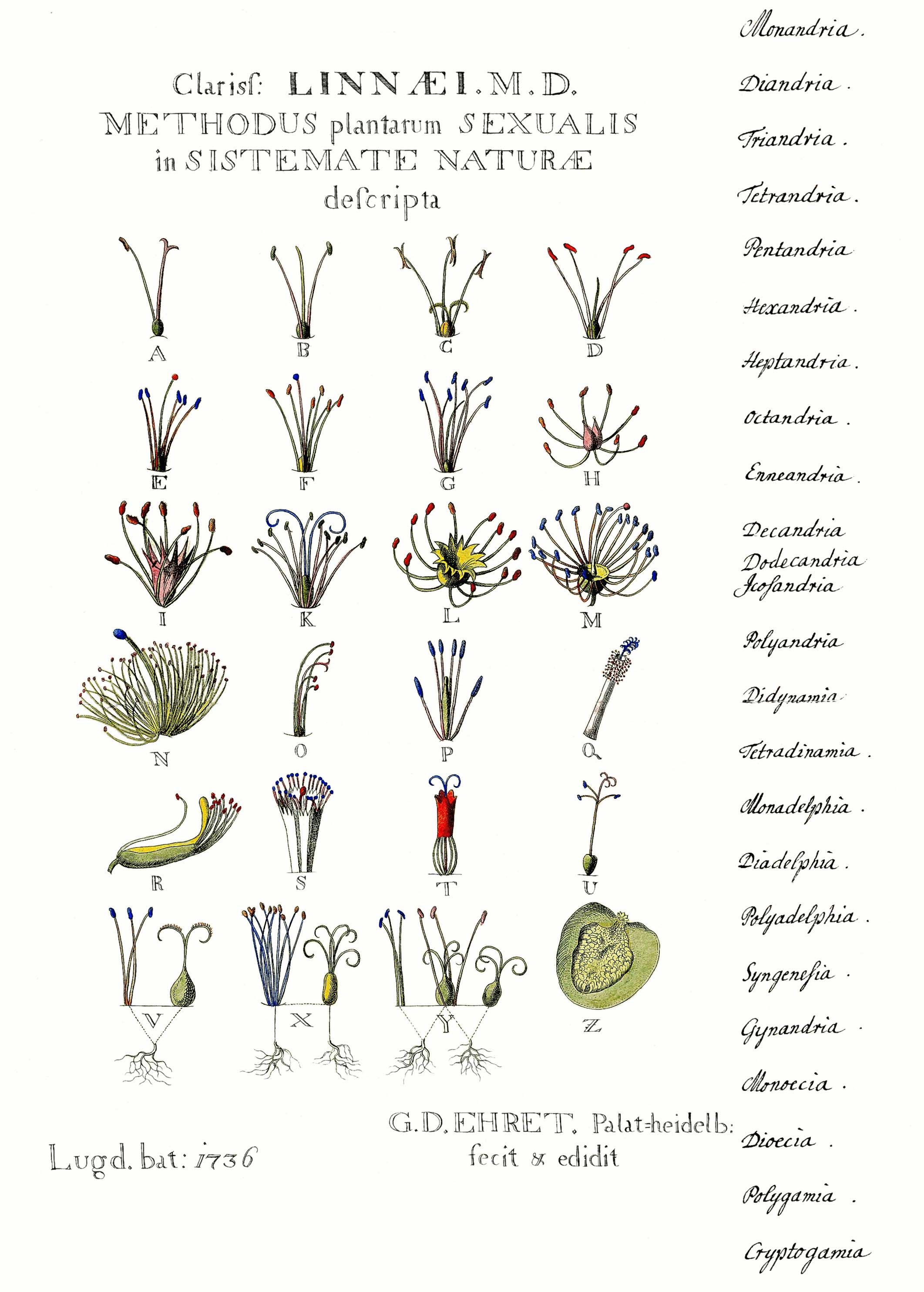 The signboard “Methodus Plantarum Sexualis in sistemate naturae descripta” (Leiden 1736) images according to Linnés sexual systems 24 classes. Georg Dionysius Ehret, has possibly alone wrote the bunch names in the right edge, and applied the color.